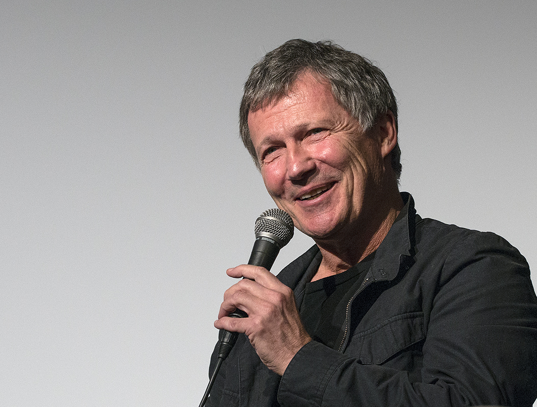 Michael Rother, german musician